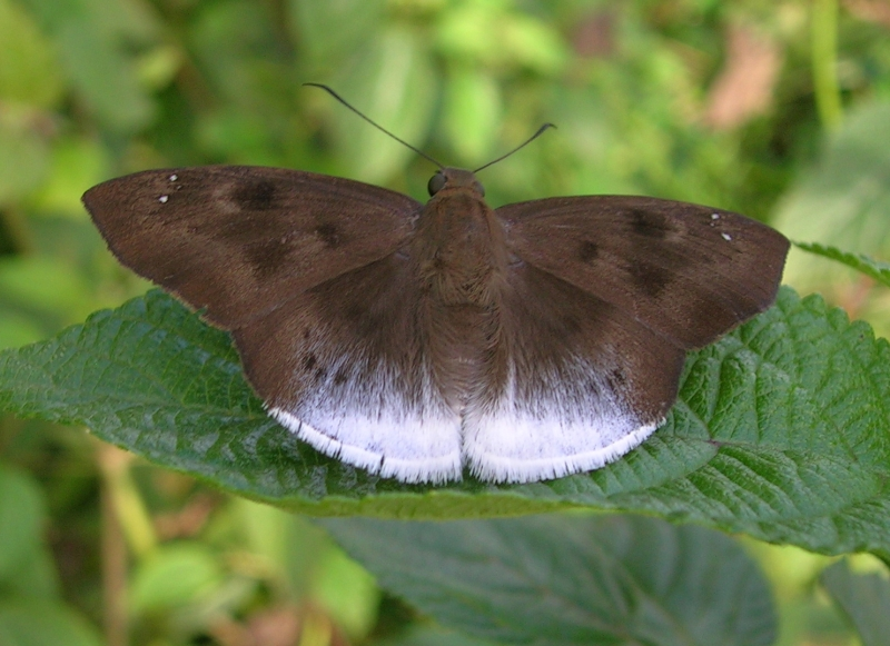 Suffused Snow Flat butterfly Tagiades gana, Hesperidae, Nagerhole, India